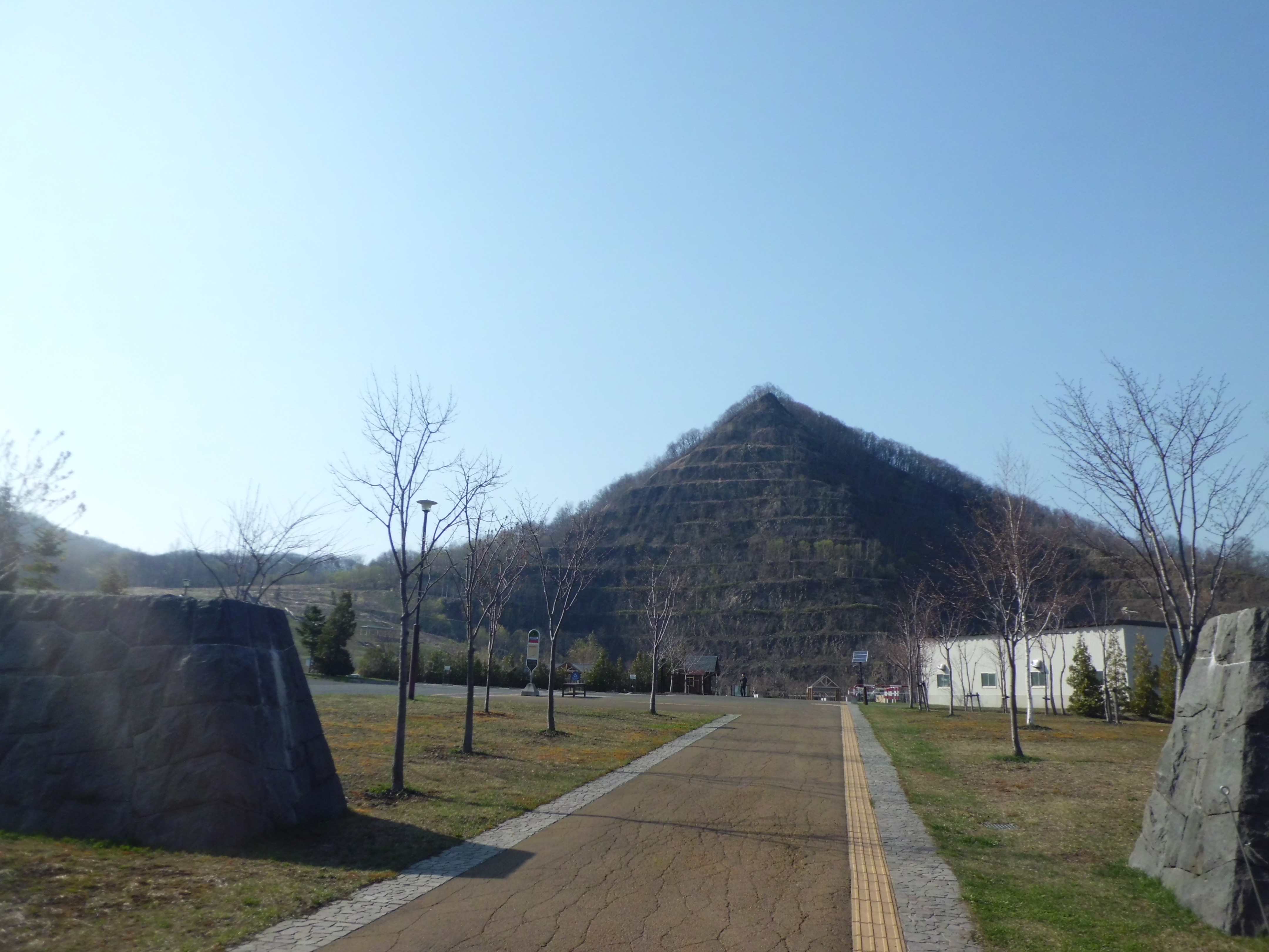 Mount Goten in Nishi-ku, Sapporo